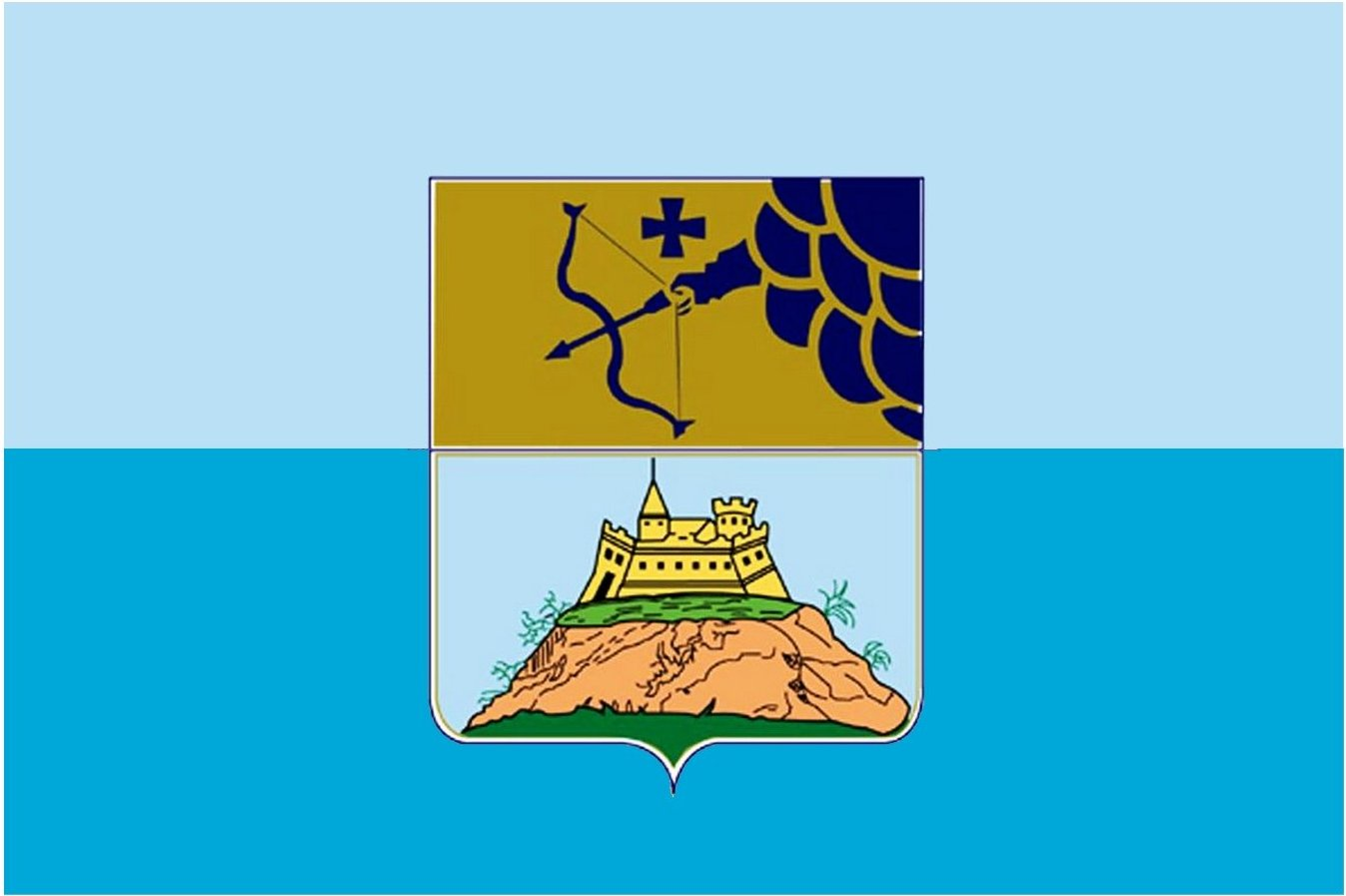 Flag of Sarapul.